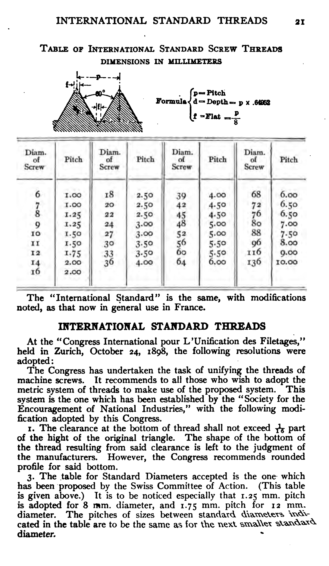 Page 21 of Colvin FH, Stanley FA (eds) (1914): American Machinists' Handbook, 2nd ed. New York and London: McGraw-Hill. Summarizes 1898 international screw thread standard, the predecessor to the ISO standard.